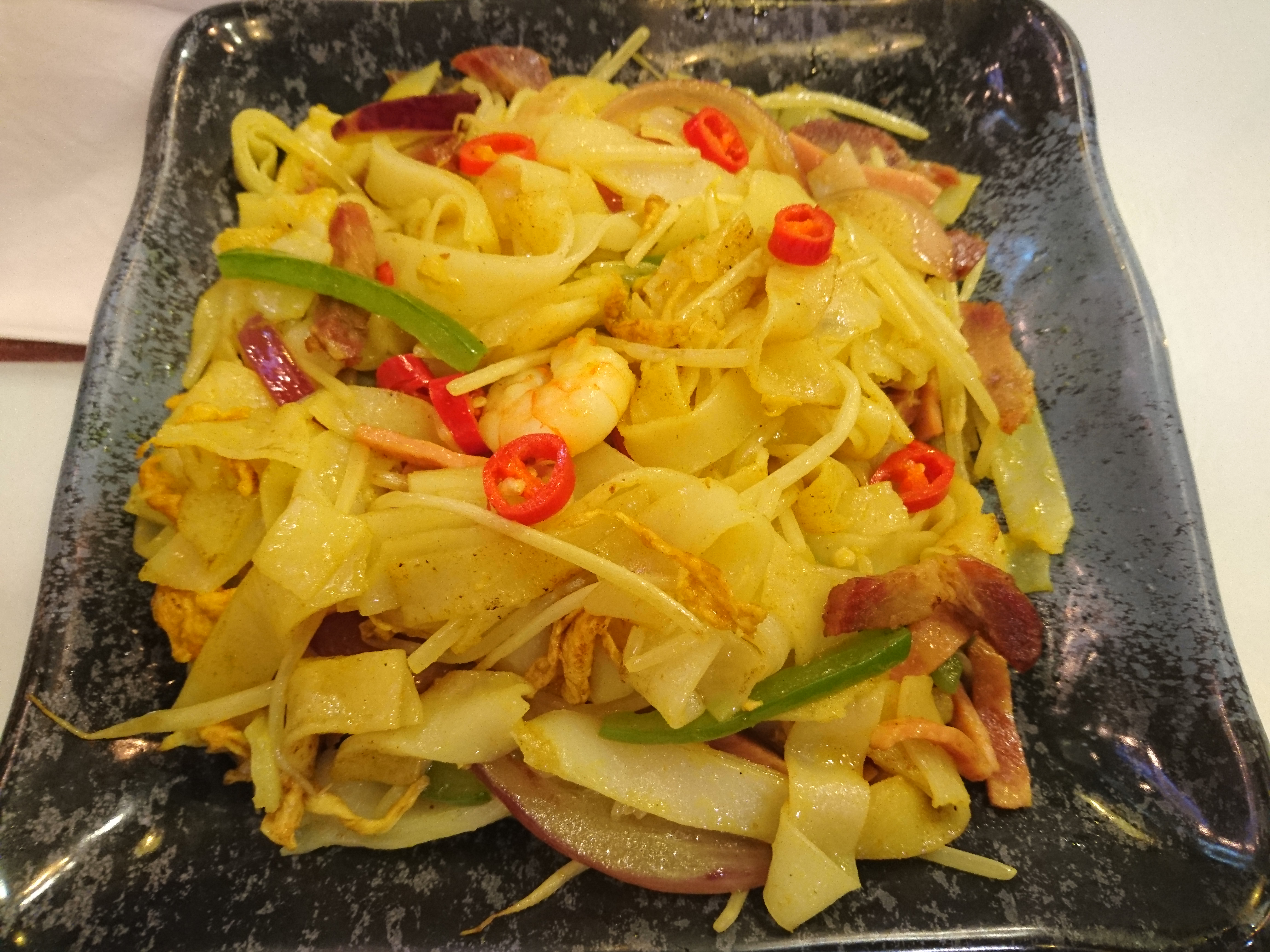 Char Kway Teow in Hong Kong